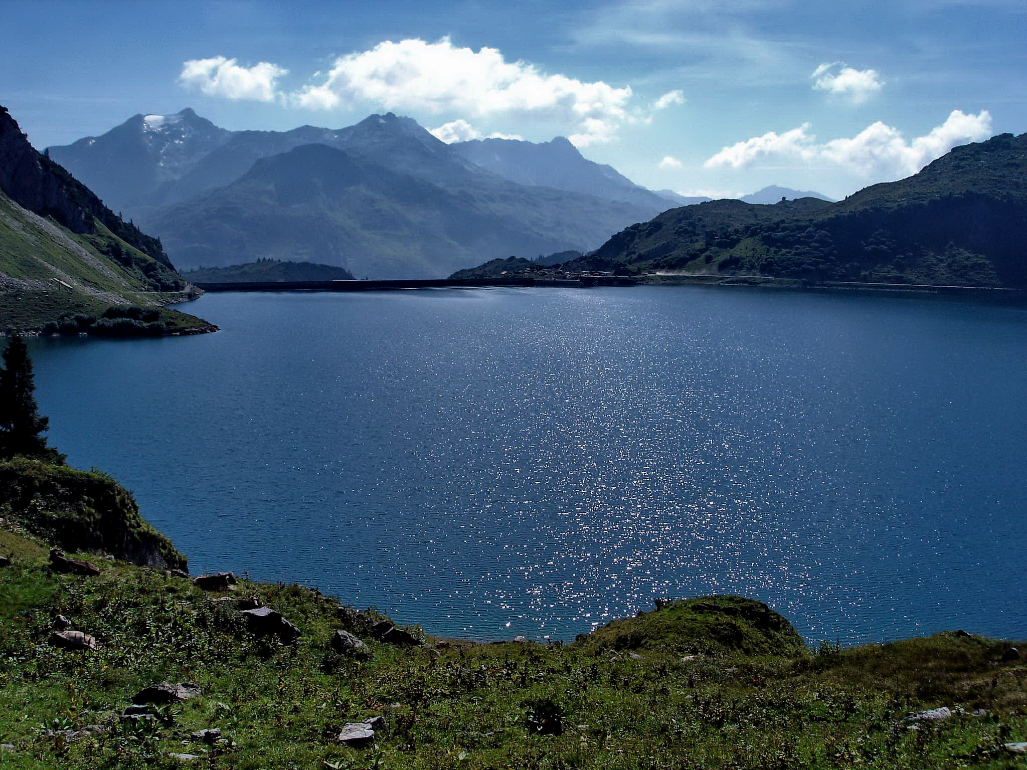 Spullersee, Austria, view to South. Mountains from left to right: Östliche Eisentaler Spitze, 2735m, Westliche Eisentaler Spitze 2710m (hidden). In Front Omesspitze 2589m, Plattingrat 2498m and Burtschakopf 2244m. Lobspitze, 2605m